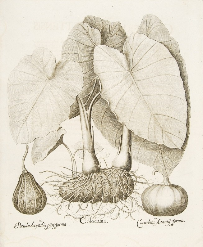 Colocasia from "Hortus Eystettensis" by Basilius Besler